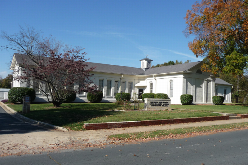 Rowan-Salisbury School System Ellis Street Administrative Building. Located in Salisbury, NC, USA.